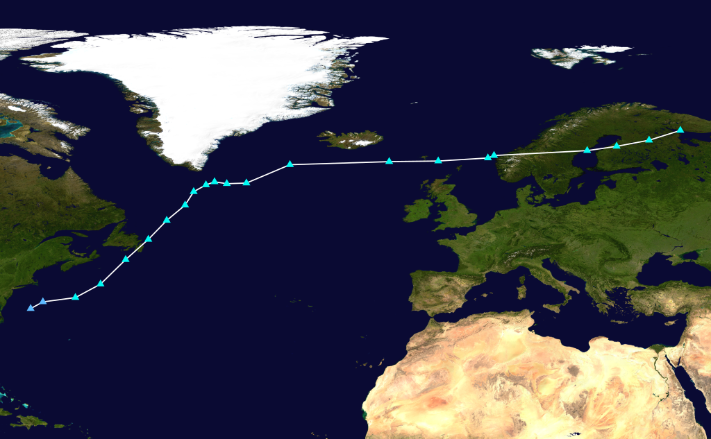 Track map of Storm Atiyah of the 2019-20 European windstorm season. The points show the location of the storm at 6-hour intervals. The colour represents the storm's maximum sustained wind speeds as classified in the Saffir–Simpson scale (see below), and the shape of the data points represent the nature of the storm, according to the legend below. Saffir–Simpson scale Tropical depression≤38 mph≤62 km/h Category 3111–129 mph178–208 km/h Tropical storm39–73 mph63–118 km/h Category 4130–156 mph209–251 km/h Category 174–95 mph119–153 km/h Category 5≥157 mph≥252 km/h Category 296–110 mph154–177 km/h Unknown Storm type Tropical cyclone Subtropical cyclone Extratropical cyclone / Remnant low / Tropical disturbance / Monsoon depression